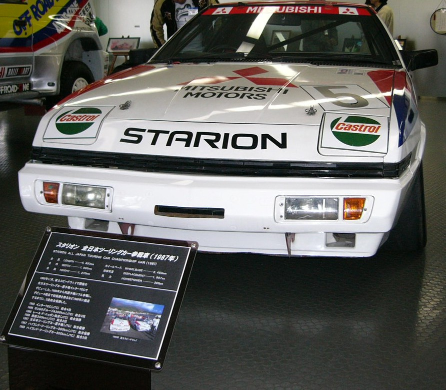 It takes a picture of Mitsubishi Starion (1987 JTC ver) of Aichi Prefecture Okazai City and a Mitsubishi Auto Gallery.